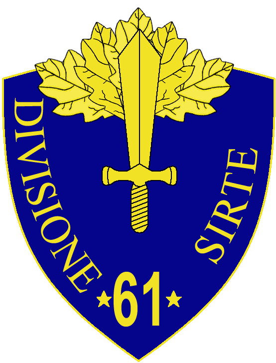 61a Divisione Fanteria Sirte insignia, Regio Esercito, Italy, WWII